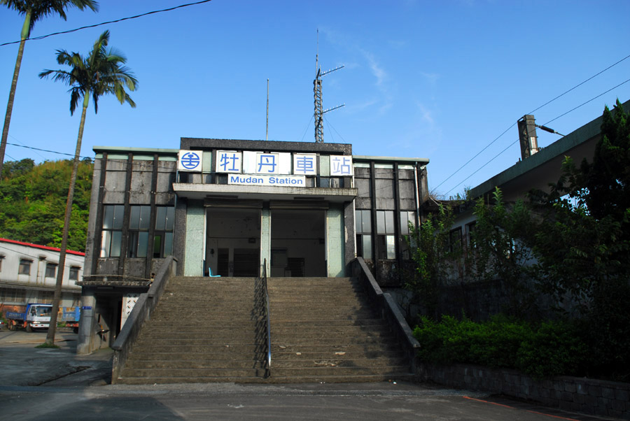 MuDan Station is a local train station of Yilan Line, part of Taiwan's eastern rail line. It's located within the boundary of ShuangSi Township, Taipei County.